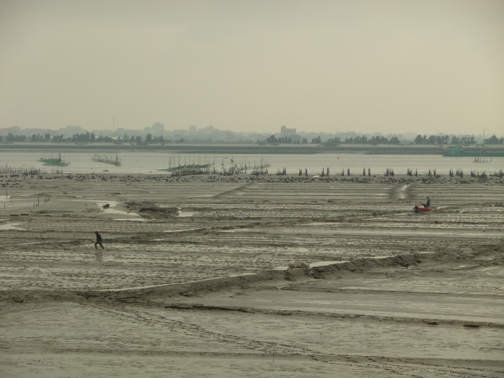 Anhai Bay is the estuary of the Shijing River. It separates Shijing Town (west side) from Dongshi town (east side). This is a tidal estuary; much of its bottom is exposed in low tide, and is used for something that looks like fishing and a form of oyster cultivation. These photos were taken from the west side of the bay, between Shijing and Shuitou; Dongshi Town's skyline can be seen in the background of some photos.